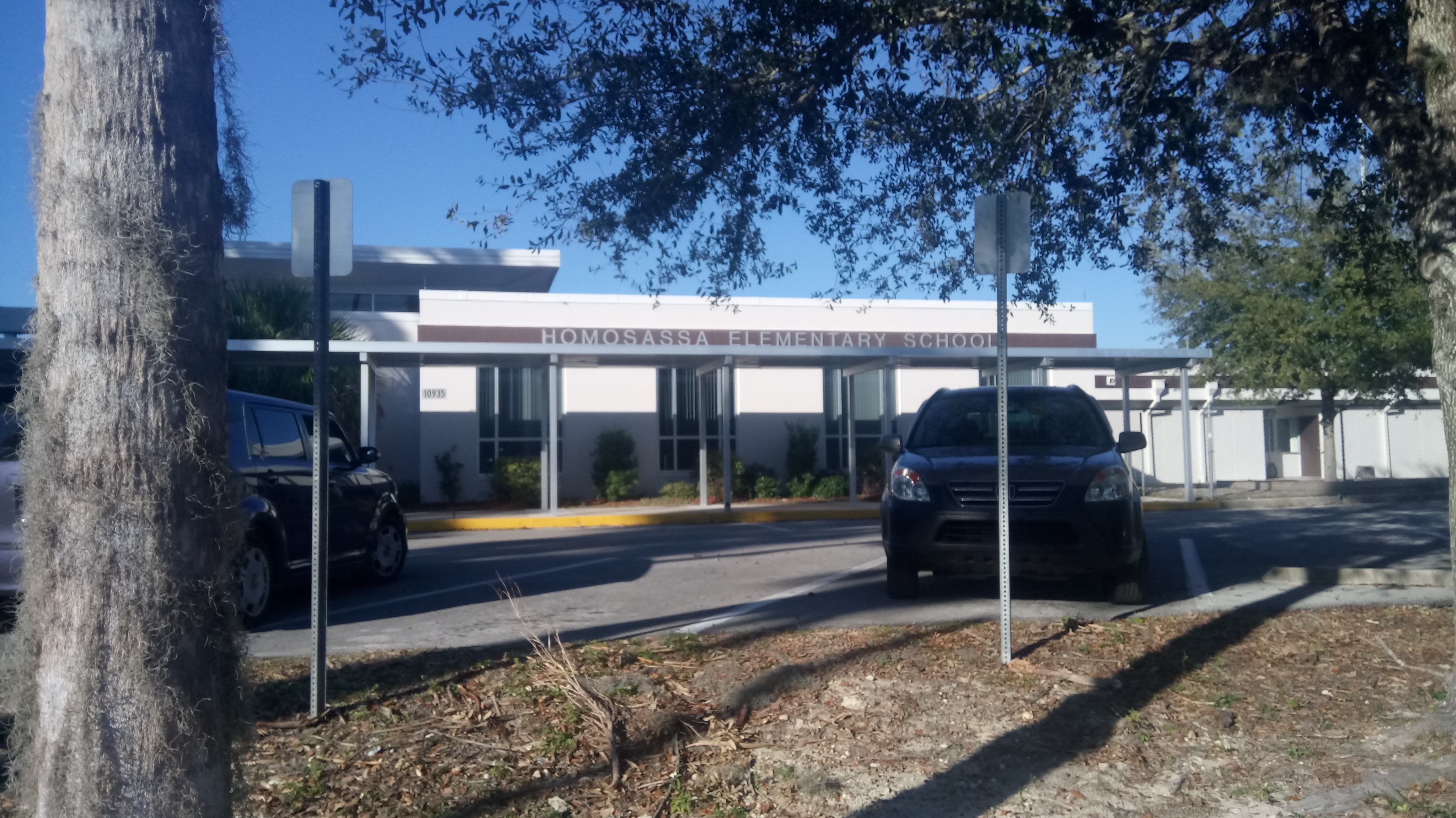 Homosasss Elementary School